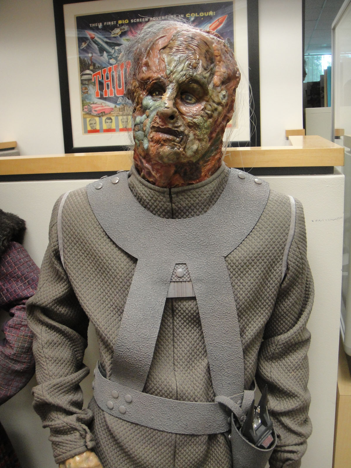 photo 2012 taken by Doug Kline If you're interested in higher resolution versions of my images, contact me via my profile page.